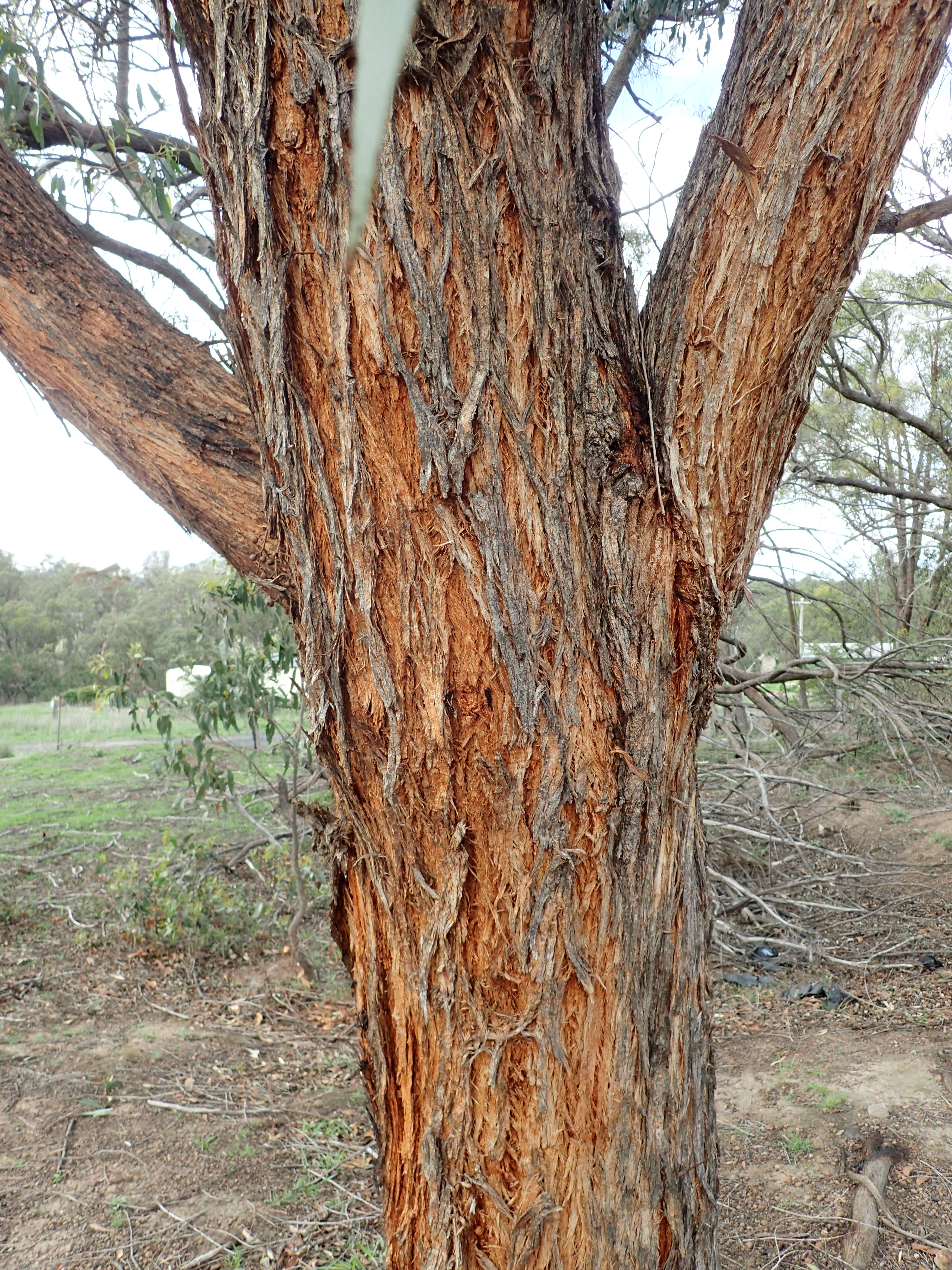 Bark of Eucalyptus youmanii along Sawpit Gully Road, near Uralla